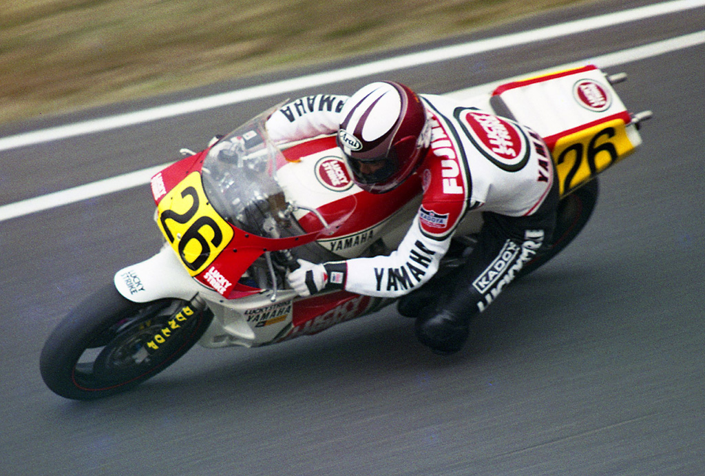 Norihiko Fujiwara, at Japanese Grand Prix 1989